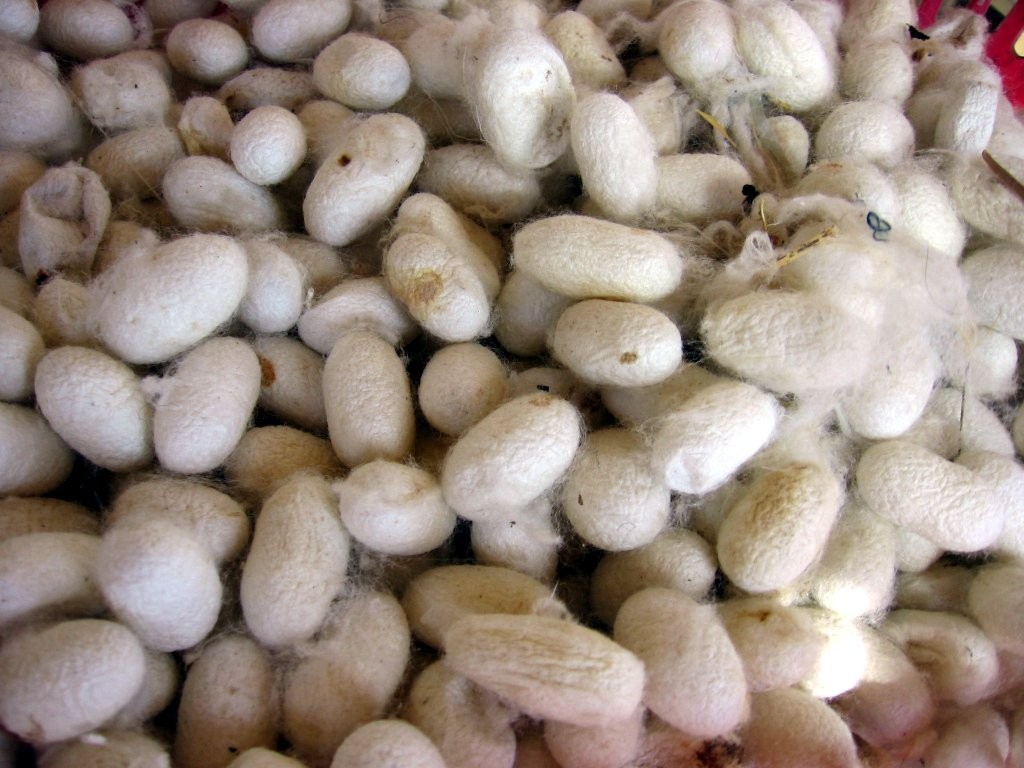 Khotan (Hotan / Hetian) is an oasis city in the Xinjiang Uygur Autonomous Region of the People's Republic of China. Atlas silk factory.